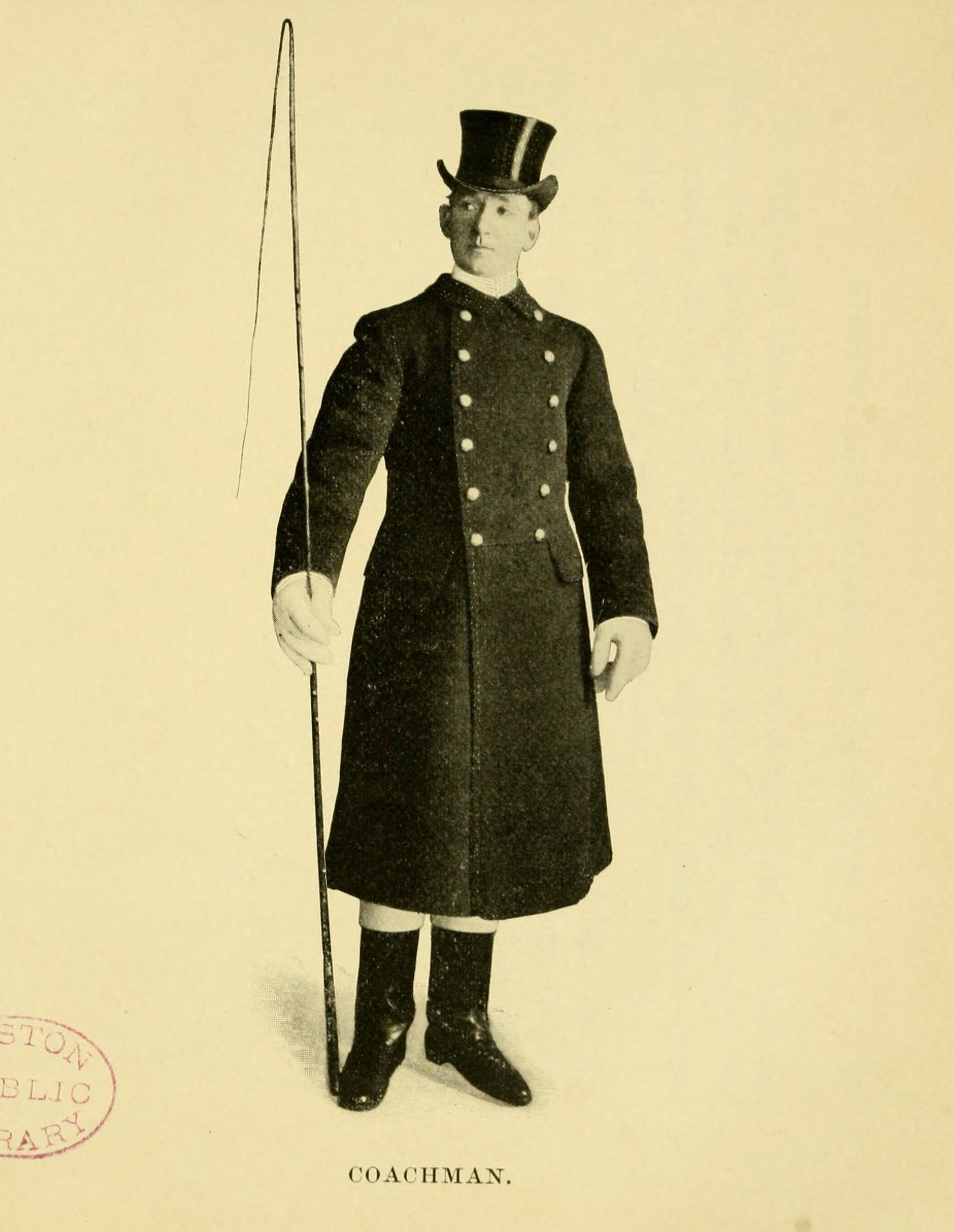 Title: Mrs. Seely's cook book; a manual of French and American cookery, with chapters on domestic servants, their rights and duties and many other details of household management Year: 1902 (1900s) Authors: Seely, Lida, 1854-1928 Subjects: Cookery, American Domestics cbk Publisher: New York : Macmillan Co. Text Appearing Before Image: ' Text Appearing After Image: EIGHTS AND DUTIES OF SERVANTS 27 It will need the time of the other men to clean and harnesshorses, and properly attend to them after they are used; toclean stable drains and stable; to keep the place free fromfoul odor; and to dust, wash windows, etc. In order to insure the convenience of the family, and toprevent the mens being away at meals, etc., it is best to pro-vide in such an establishment for the mens board and sleepingaccommodations, bath, etc., in the stable. CHAPTER III GENERALLY RECOGNIZED DUTIES IN THE AVERAGE WELL-APPOINTED HOUSEHOLD OF SIX SERVANTS. DUTIES OFCOOK, WAITRESS, PARLOR MAID, CHAMBERMAID, LAUN-DRESS, USEFUL MAN. Duties of Cook The cook rises and is downstairs at six oclock, and opensthe door for the furnace or useful man. She makes her fireand cleans her range, and cooks and serves at seven oclock theservants breakfast. After this breakfast she cooks the break-fast for the family, which is usually at eight oclock. Whilethe family is at breakfast she washes u